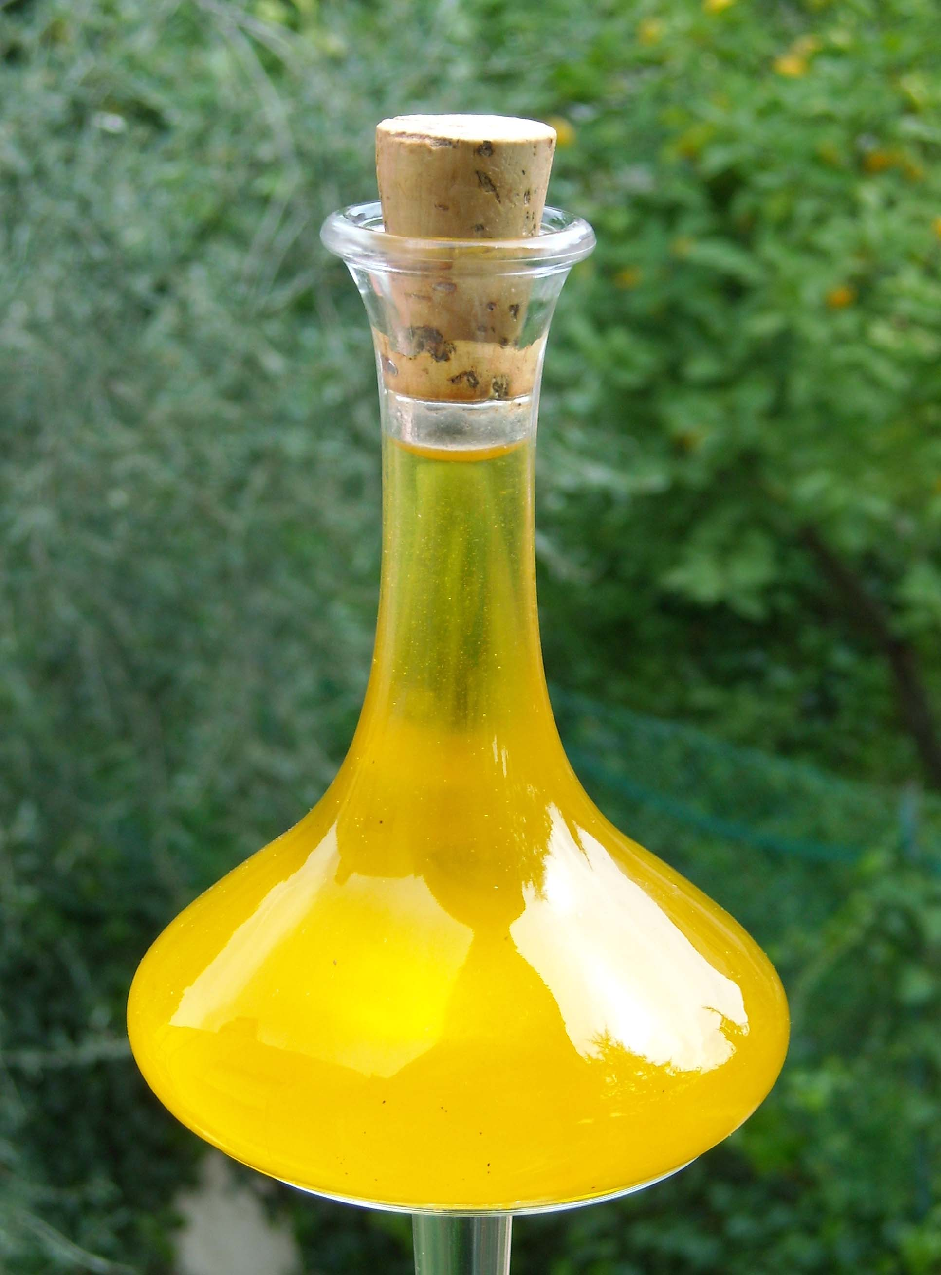 Olive oil from Imperia in Liguria, Italy.